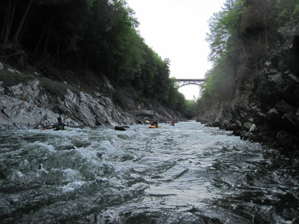 Paddling the Quechee Gorge below "Well Enough" and the US Route 4 Bridge.